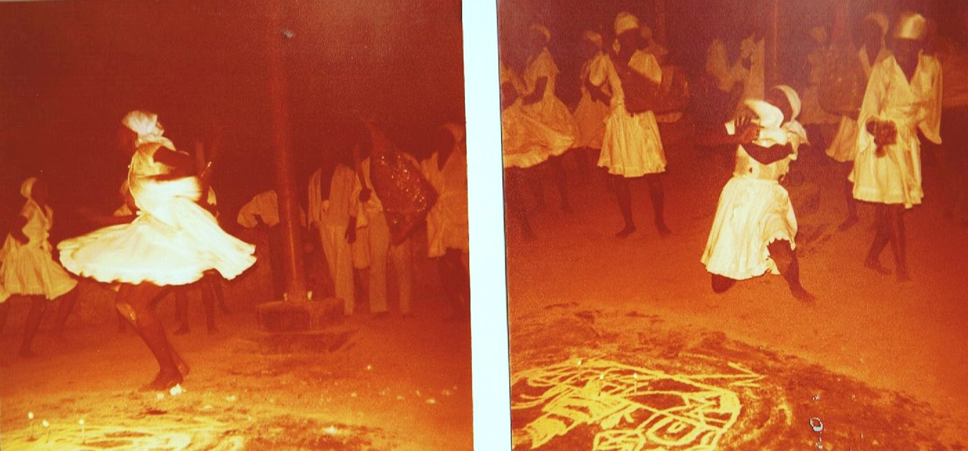 vodoo scenes from Haiti